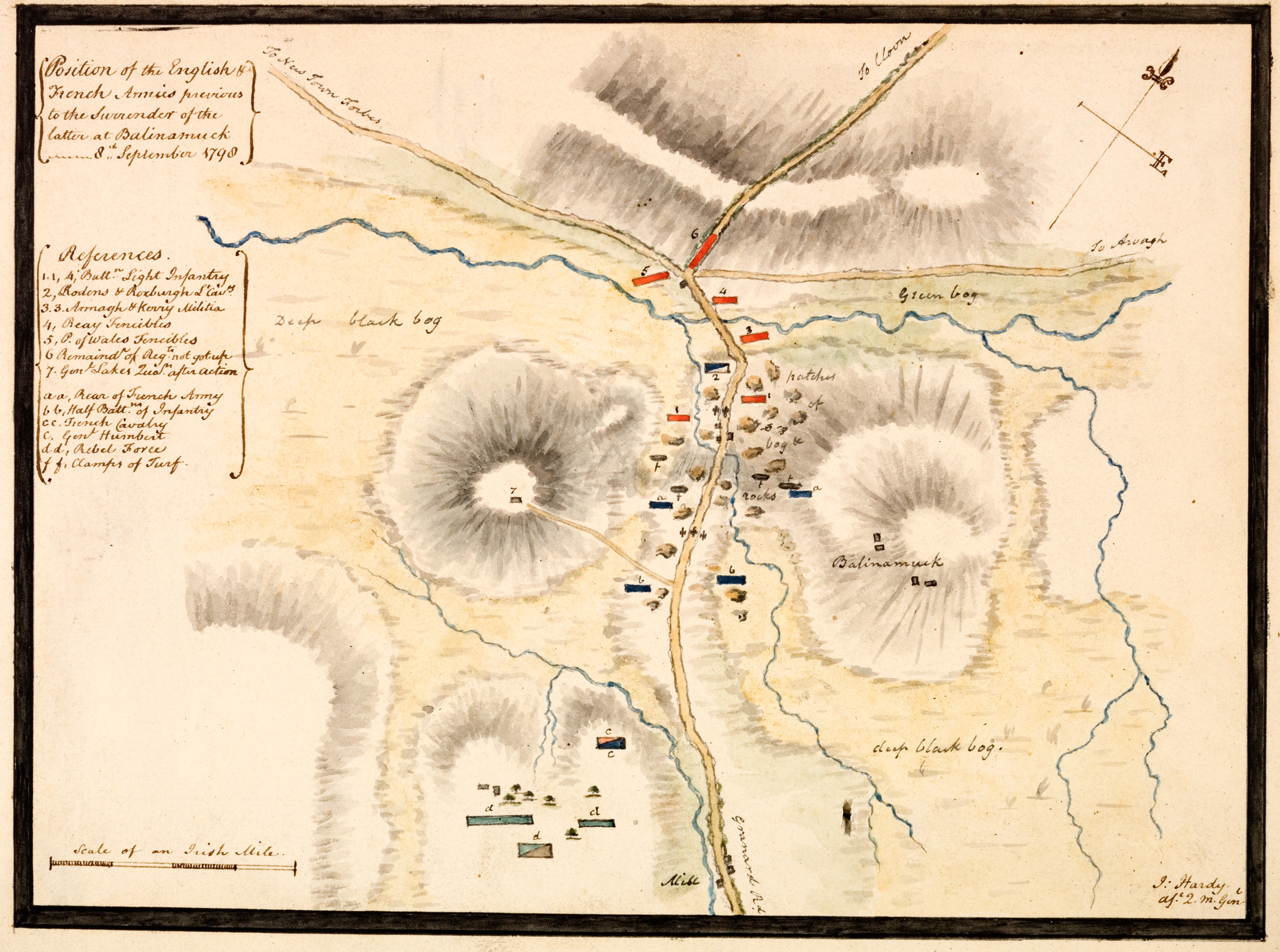 For those of you who like your maps, this is a watercolour plan by an I. Hardy of the Battle of Ballinamuck in Co. Longford showing Position of the English & French Armies previous to the Surrender of the latter at Balinamuck ... 8th September 1798. [It is also, to my shame, the first Longford image on our Commons photostream - something I hope to rectify!] Artist: I. Hardy Date: Circa 1798 Size: 26 x 19.3 cm on sheet 30.3 x 23.7 cm NLI Ref.: PD HP (1798) 20